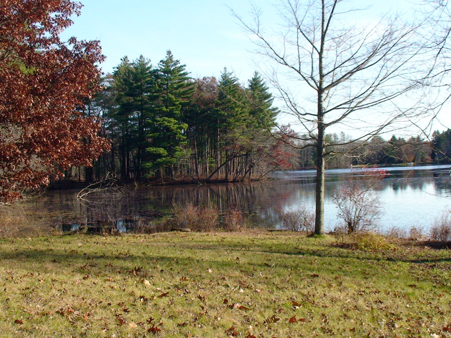 A picture of Joshua's Trust Allanach-Wolf preserve